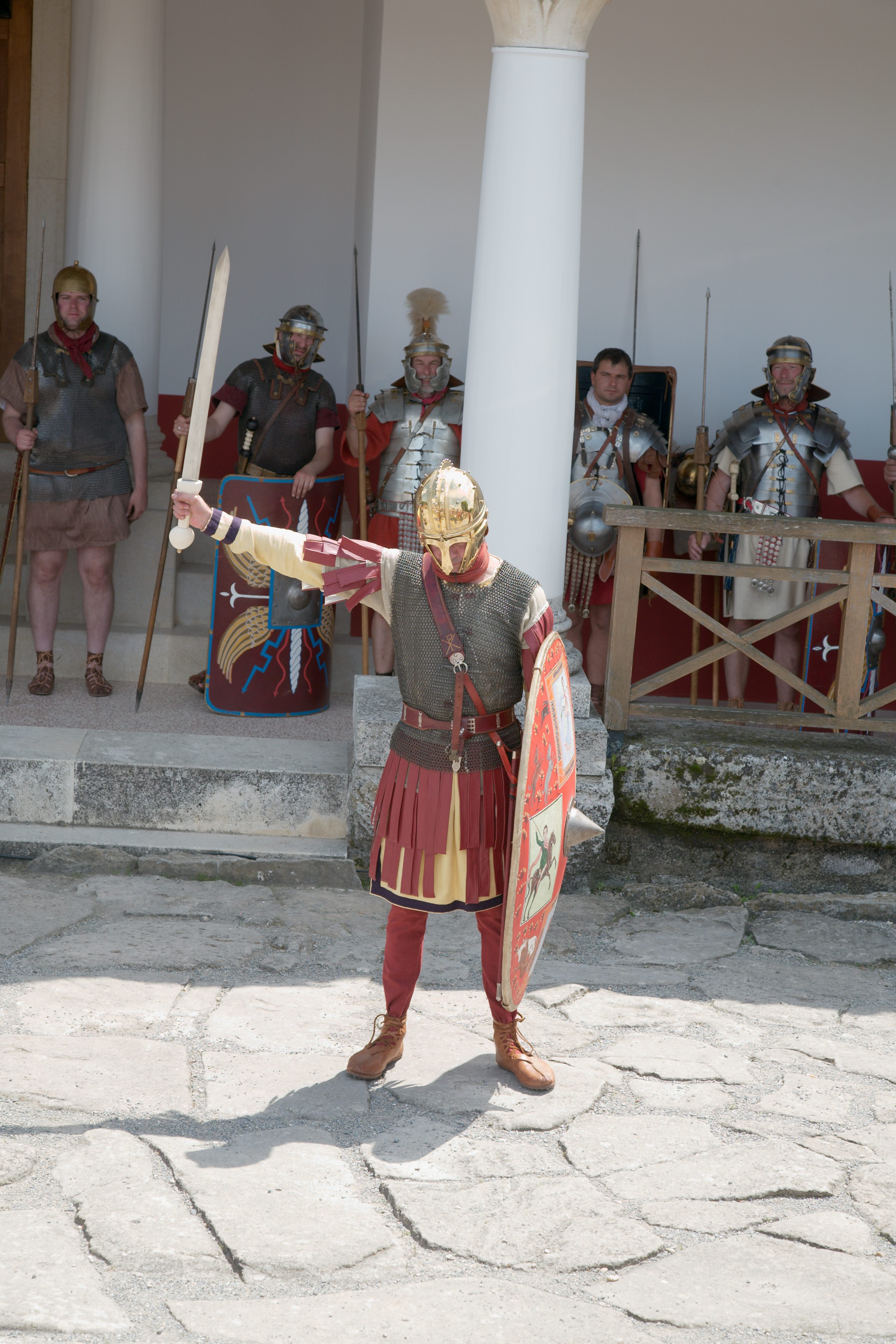 Roman legionaire 4. century. Reenactment of [1]